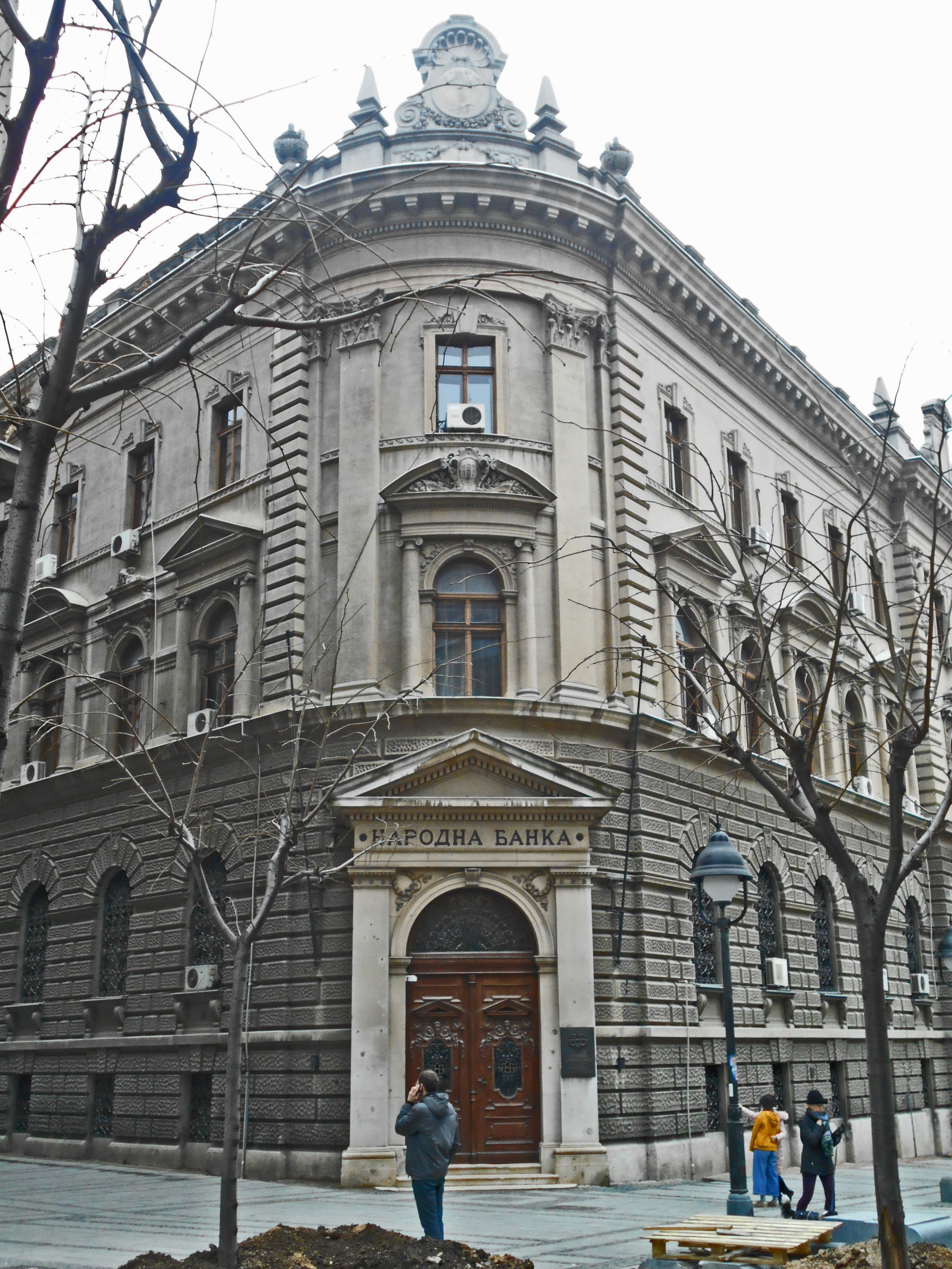 National Bank Building, 12 Kralja Petra street, Belgrade